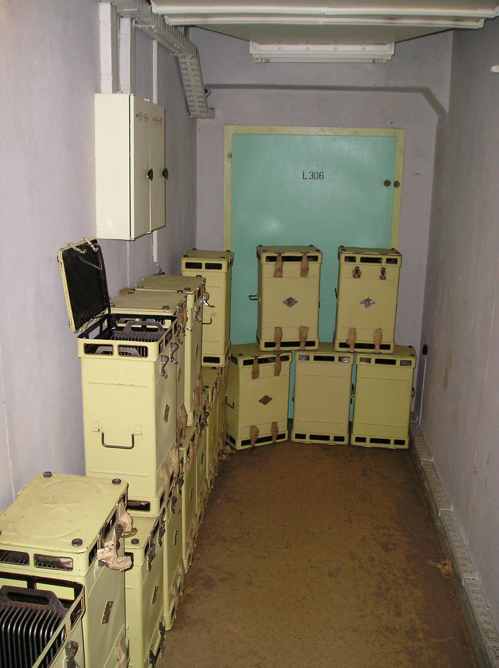 Soviet-designed RDU-Komplekte devices used to produce oxygen chemically in bunker 17/5001 in Prenden, Wandlitz, Barnim, Brandenburg, Germany.